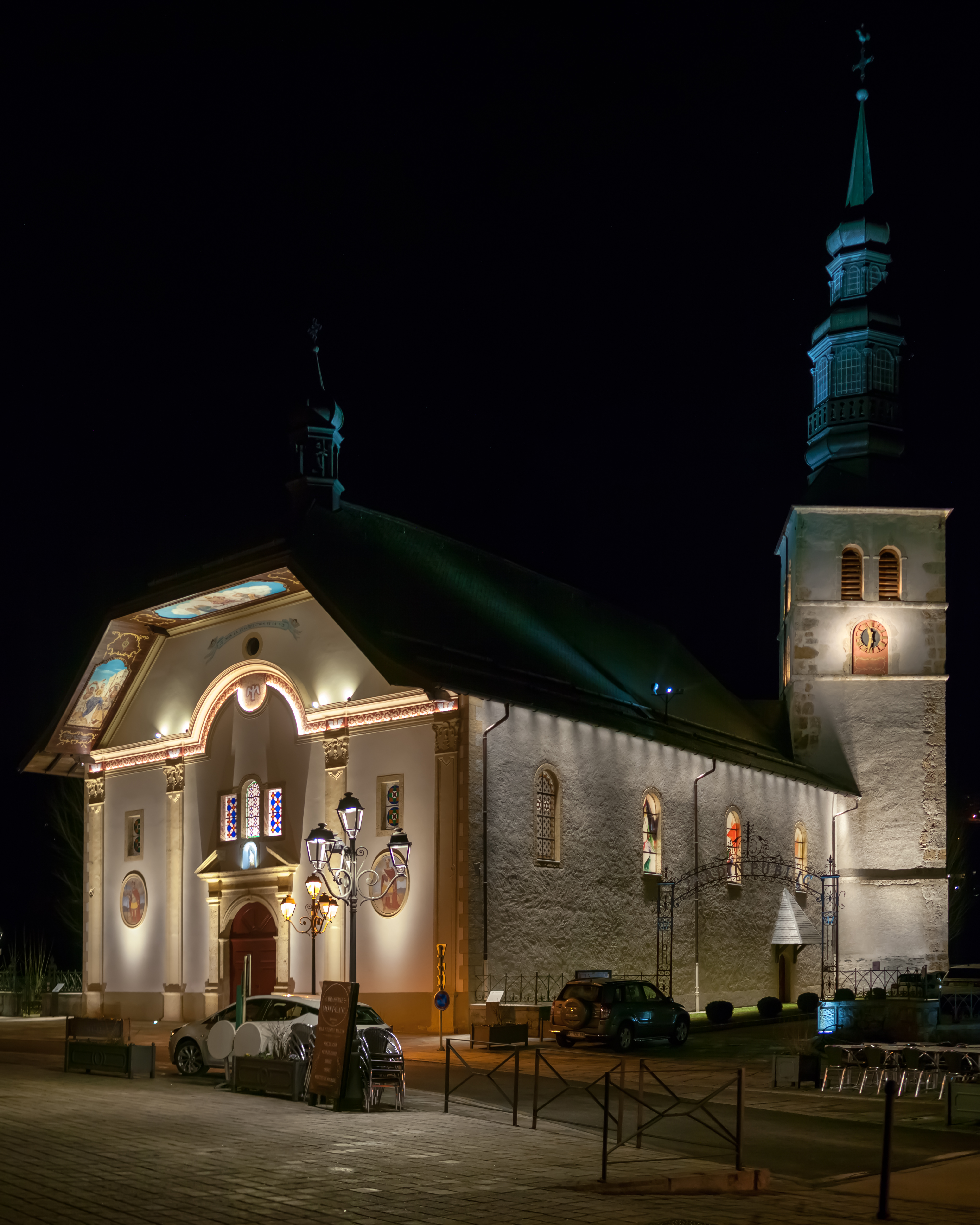 Gervasius church in Saint-Gervais-les-Bains at night